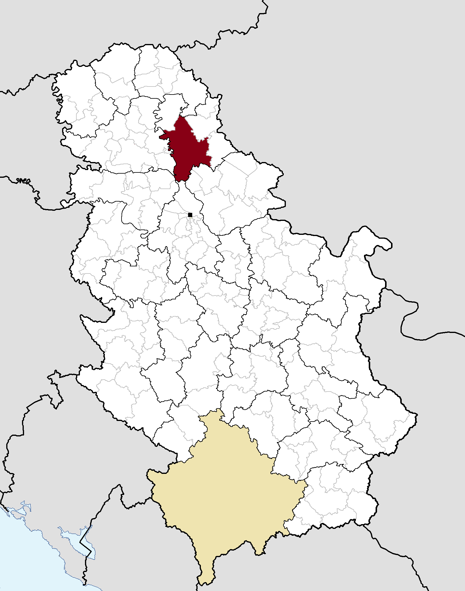 Municipal location in Serbia